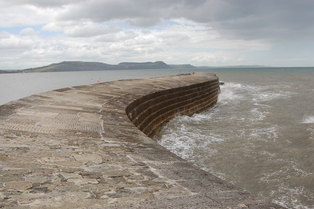 The Cobb at Lyme Regis